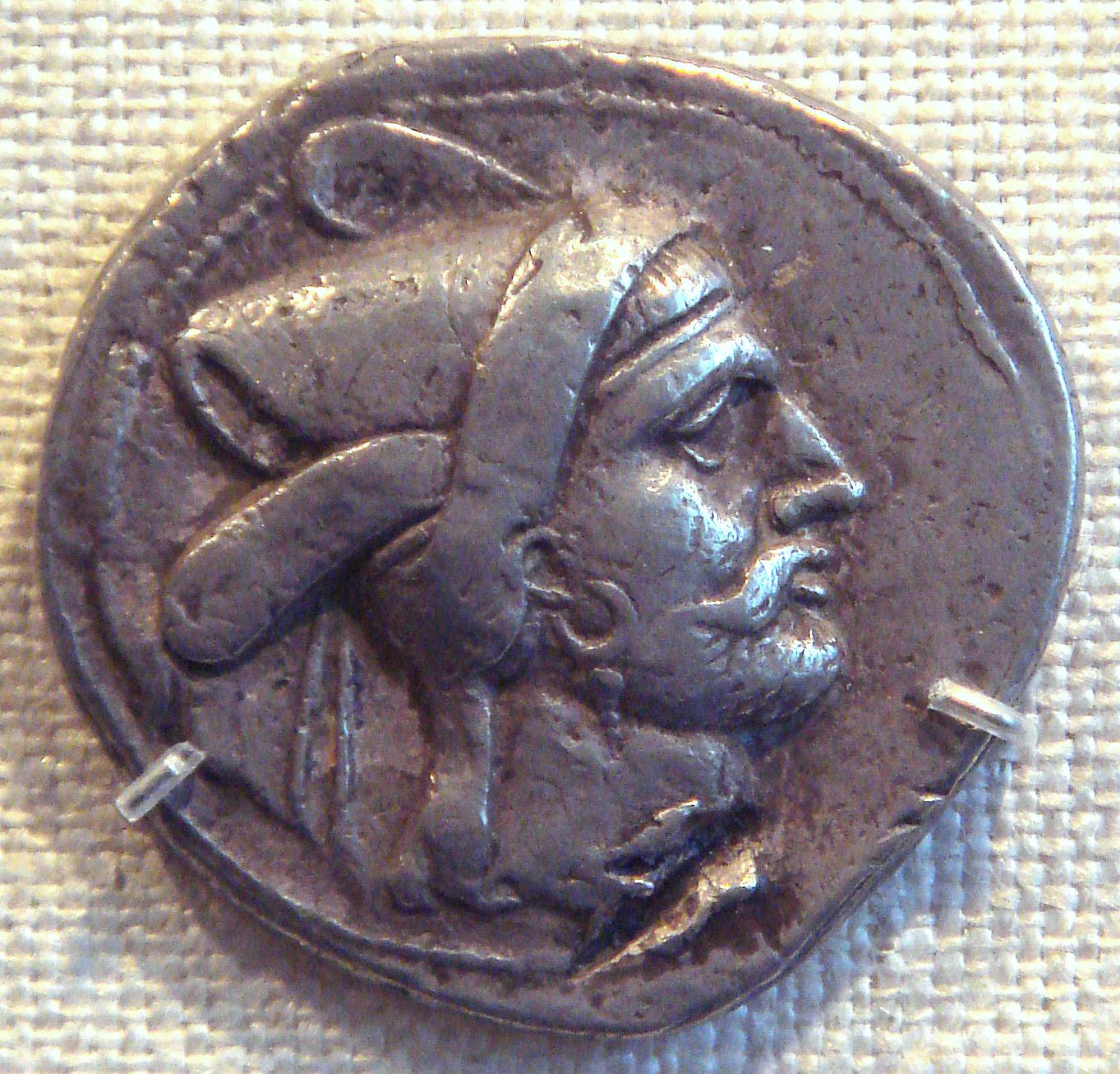 Coin of Bagadates I of Persis. Compare with Sear# 6185.